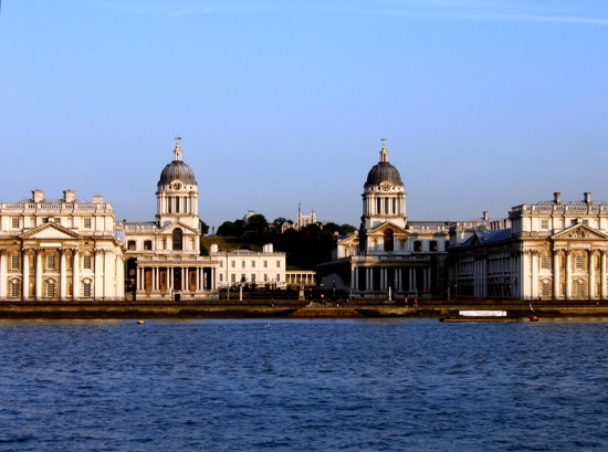 Old Royal Naval College and University of Greenwich buildings on the bank of the River Thames